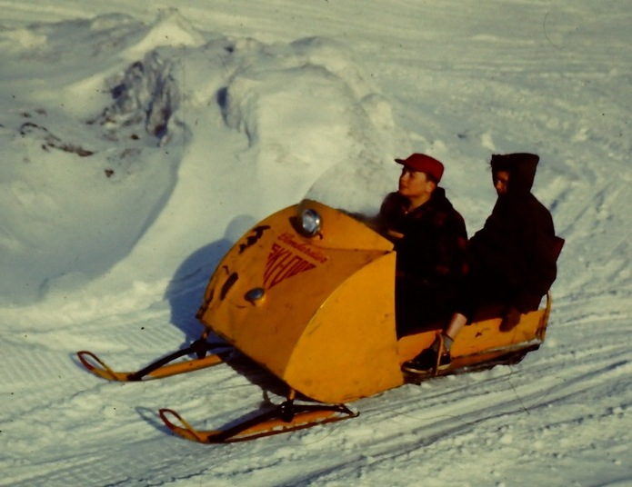 Early ski-doo in Quebec, Canada.